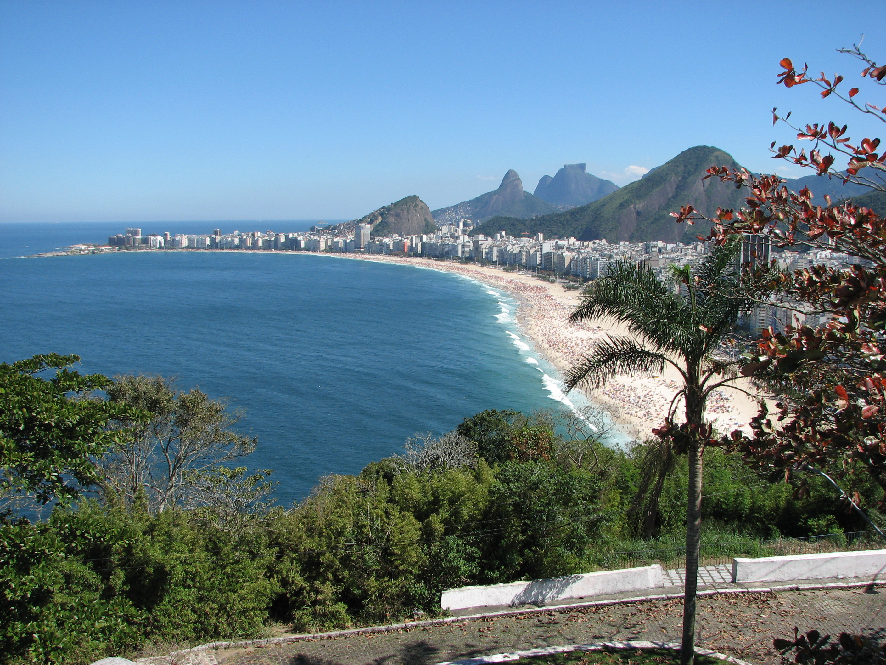 Copacabana beach - Rio de Janeiro - Brazil